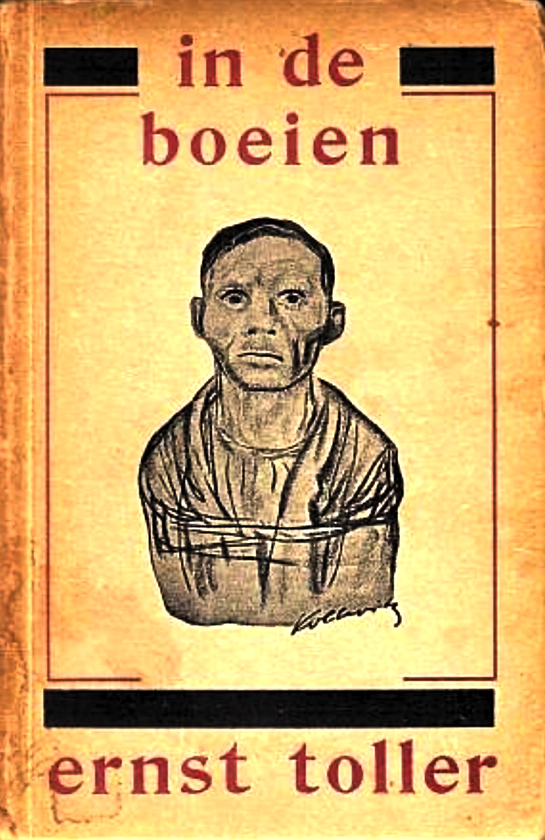 Ernst Toller: In de boeien (= In shackles), drawing by Käthe Kollwitz, Boekenvrienden Solidariteit (Hein Kohn), Hilversum 1935